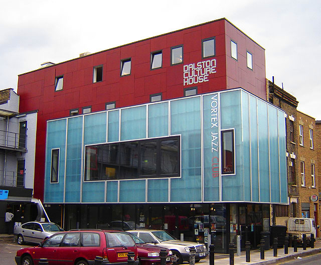 Dalston Culture House, Gillett Square, London N16. 3 October 2005. Photographer: Fin Fahey.